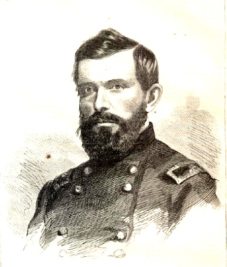 Drawing of Brigadier General James C. Rice.